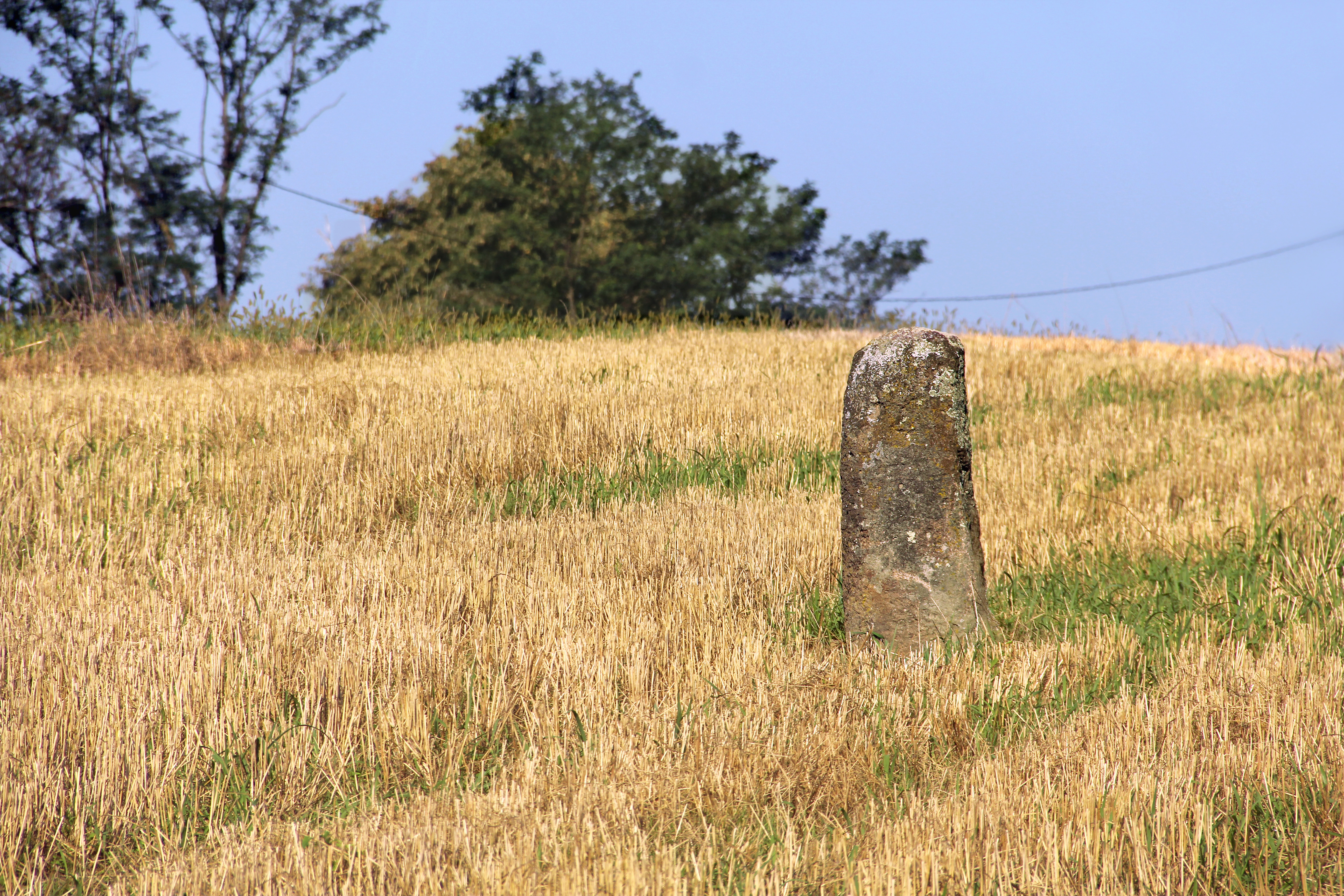 Roadside tombstone in the village of Nevade (the municipality of Gornji Milanovac), Serbia.